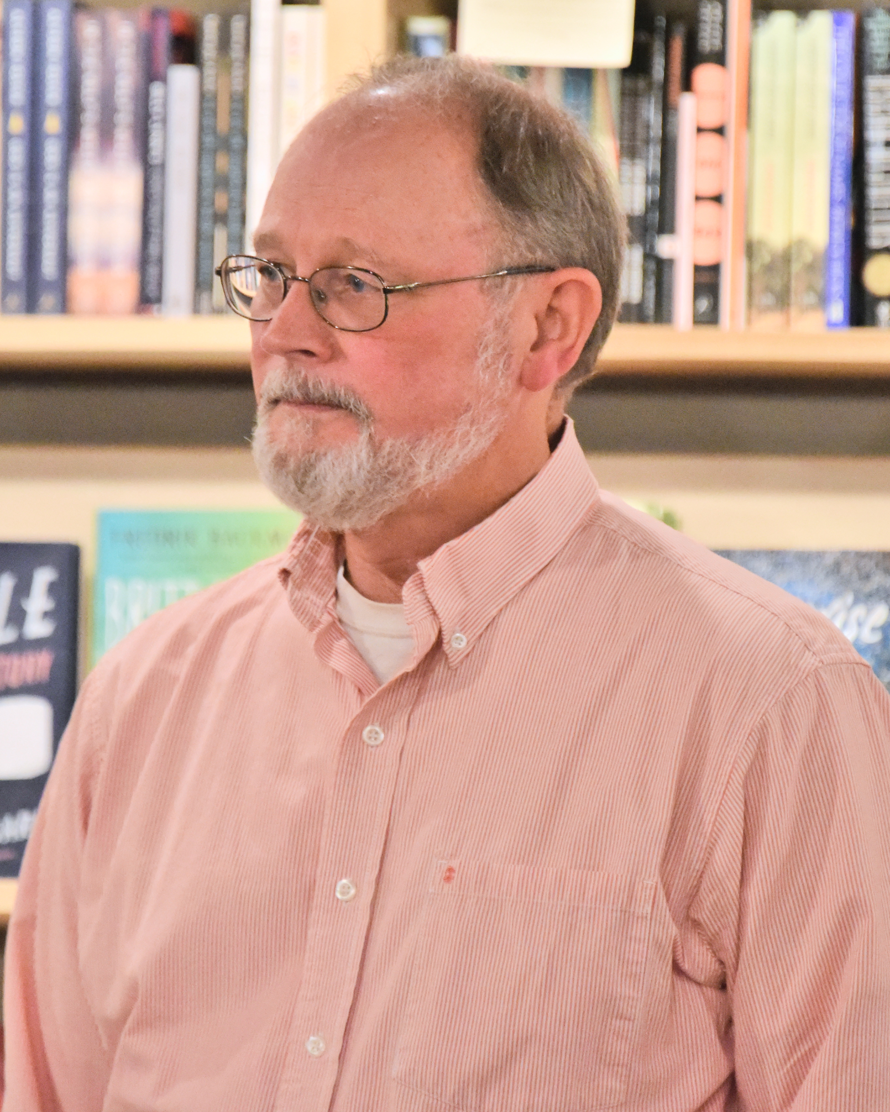 William Kent Krueger at Common Good Books